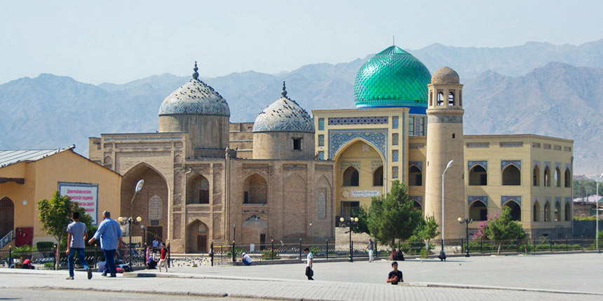 Khujand city, Tajikistan. View to the right side of the river Syr-Daryo.